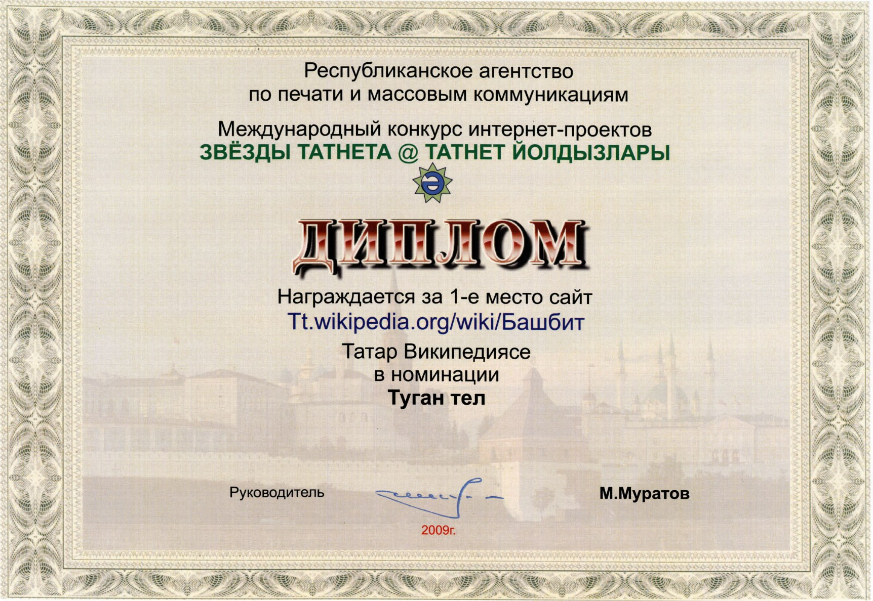 The diploma for the first place in a nomination «Туган тел» ("Native language") in the International competition of Internet projects «Татнет Йолдызлары» («Stars of Tatnet»).